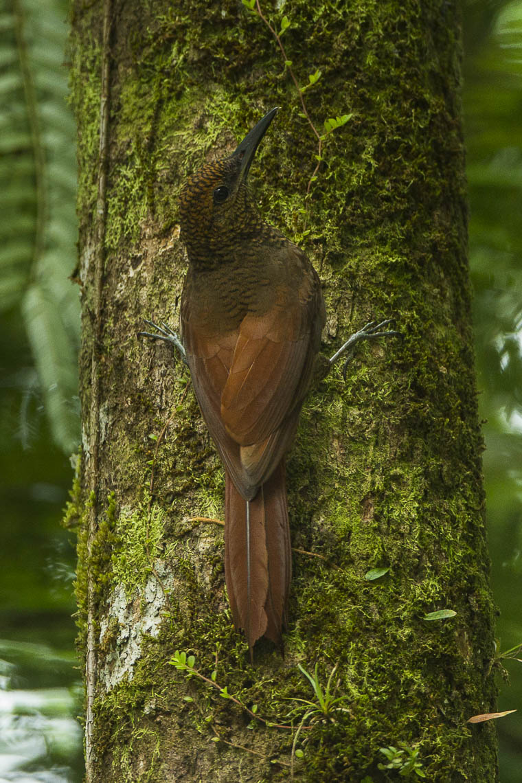 Northern Barred-Woodcreeper - Sarapiqui - Costa Rica_S4E1244